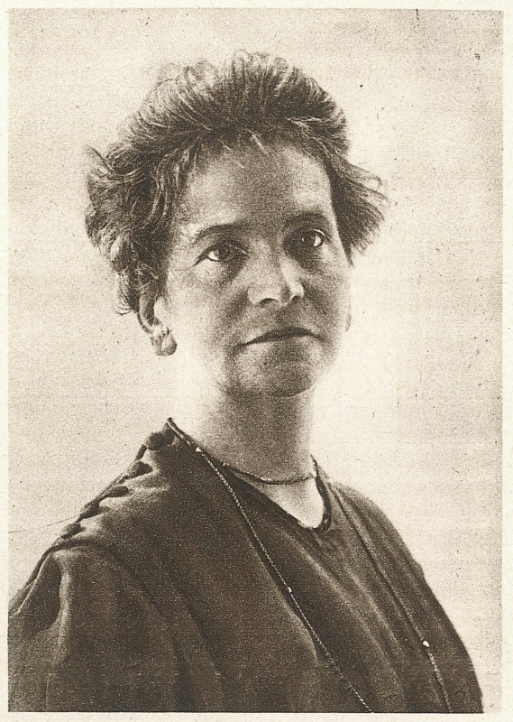 Foto of Sophie Haemmerli-Marti, around 1924